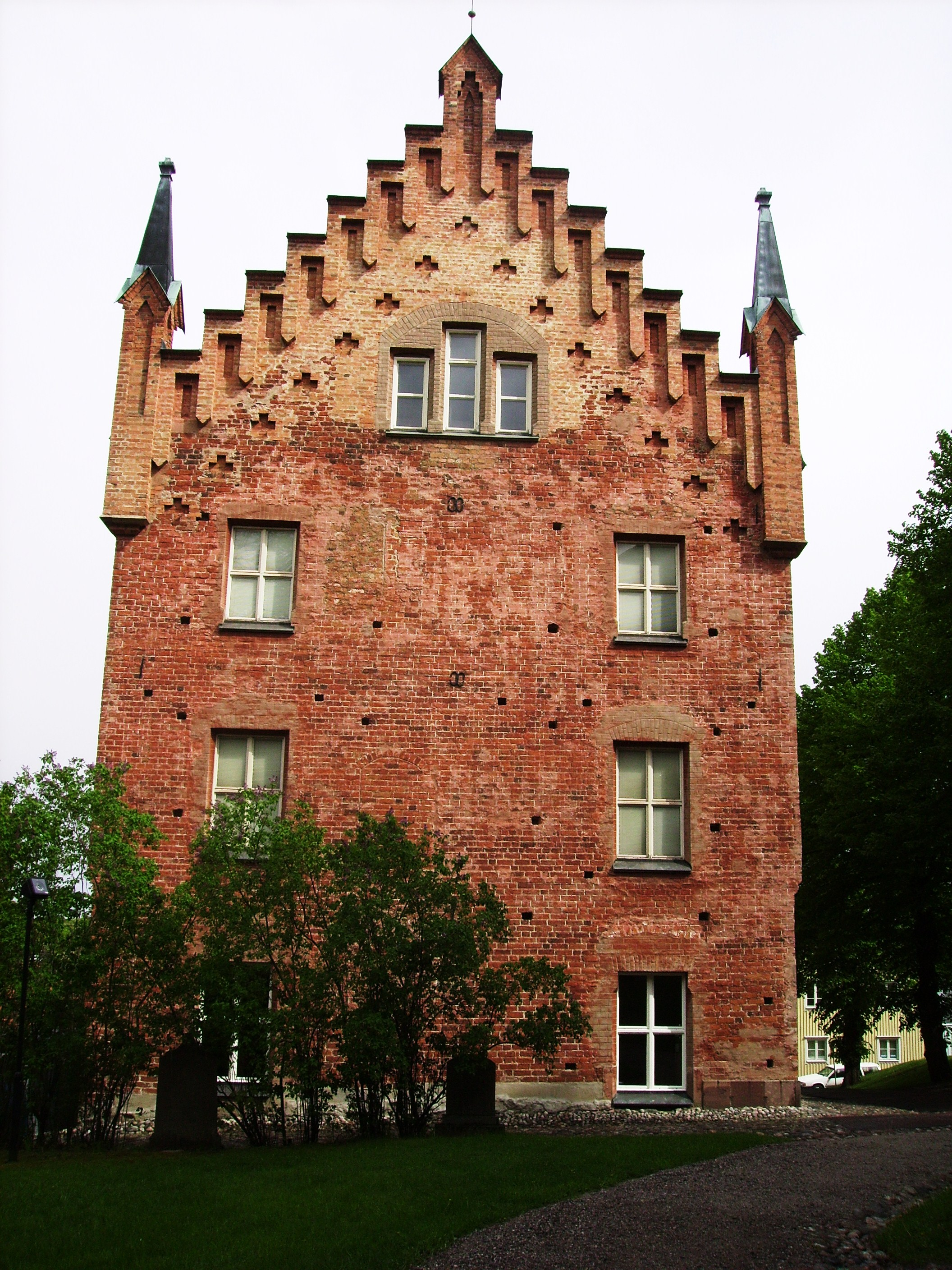 Picture of Roggeborgen in Strängnäs in Södermanland